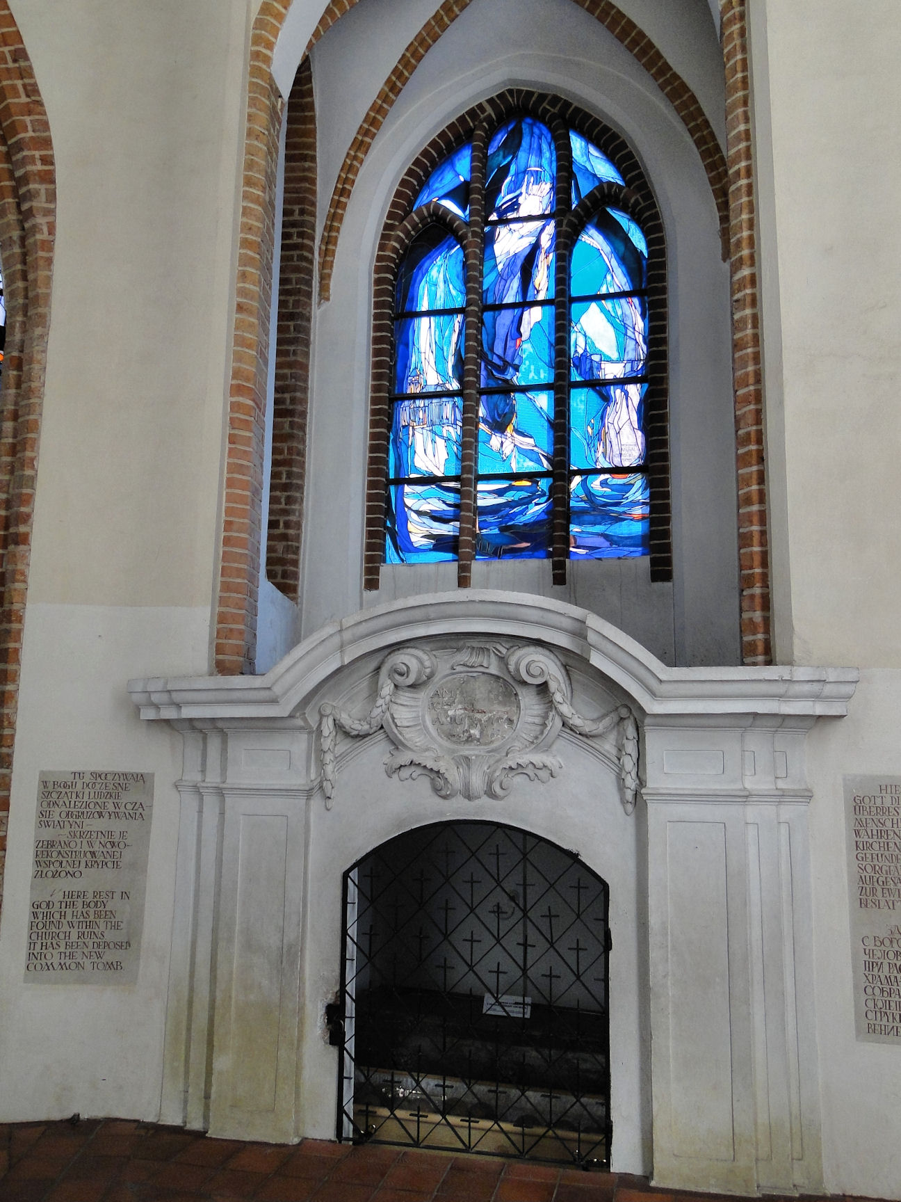 Interior of Szczecin Cathedral